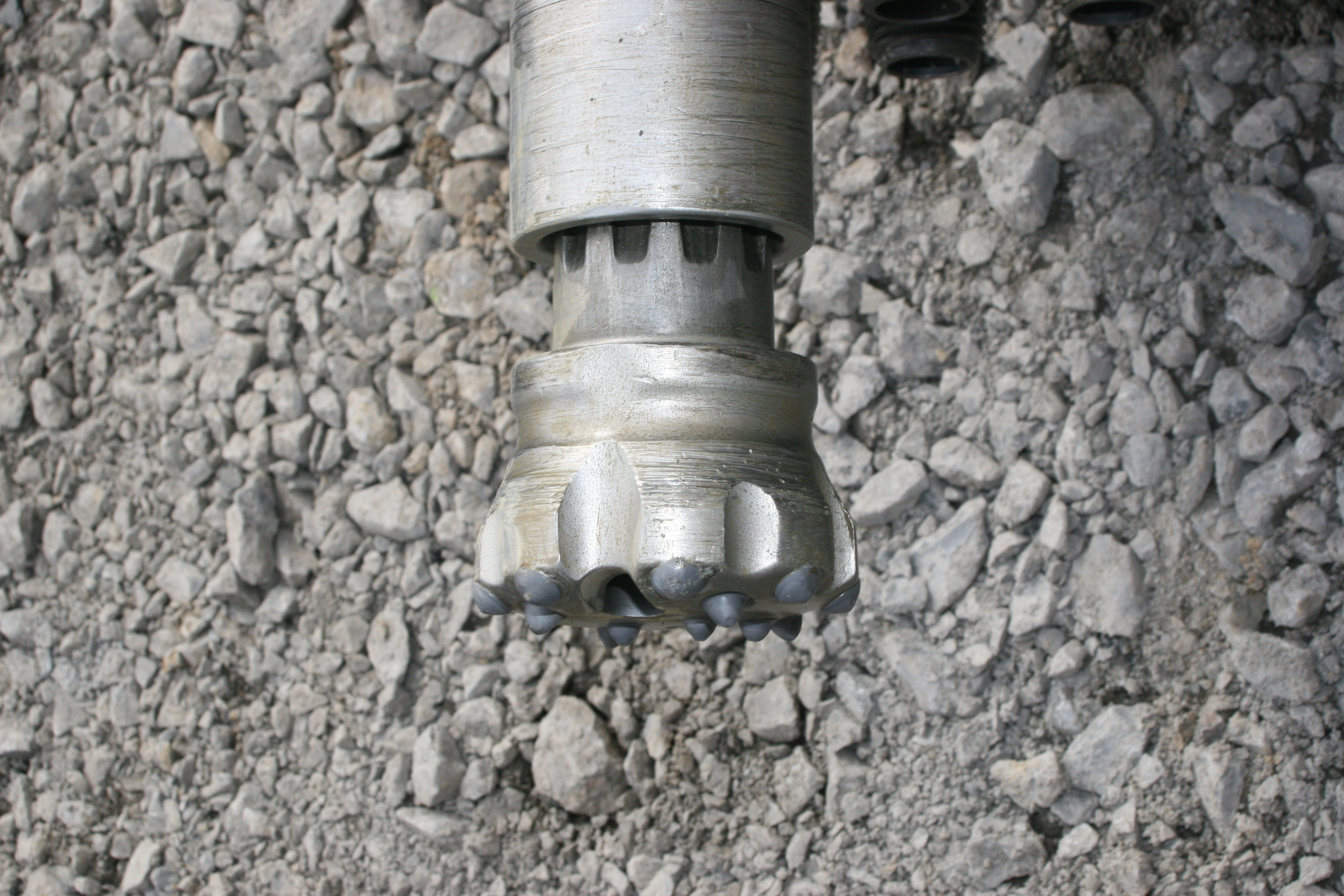 Special Drill bit for placing an Downhole heat exchanger